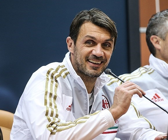 Paolo Maldini press conference in Tehran